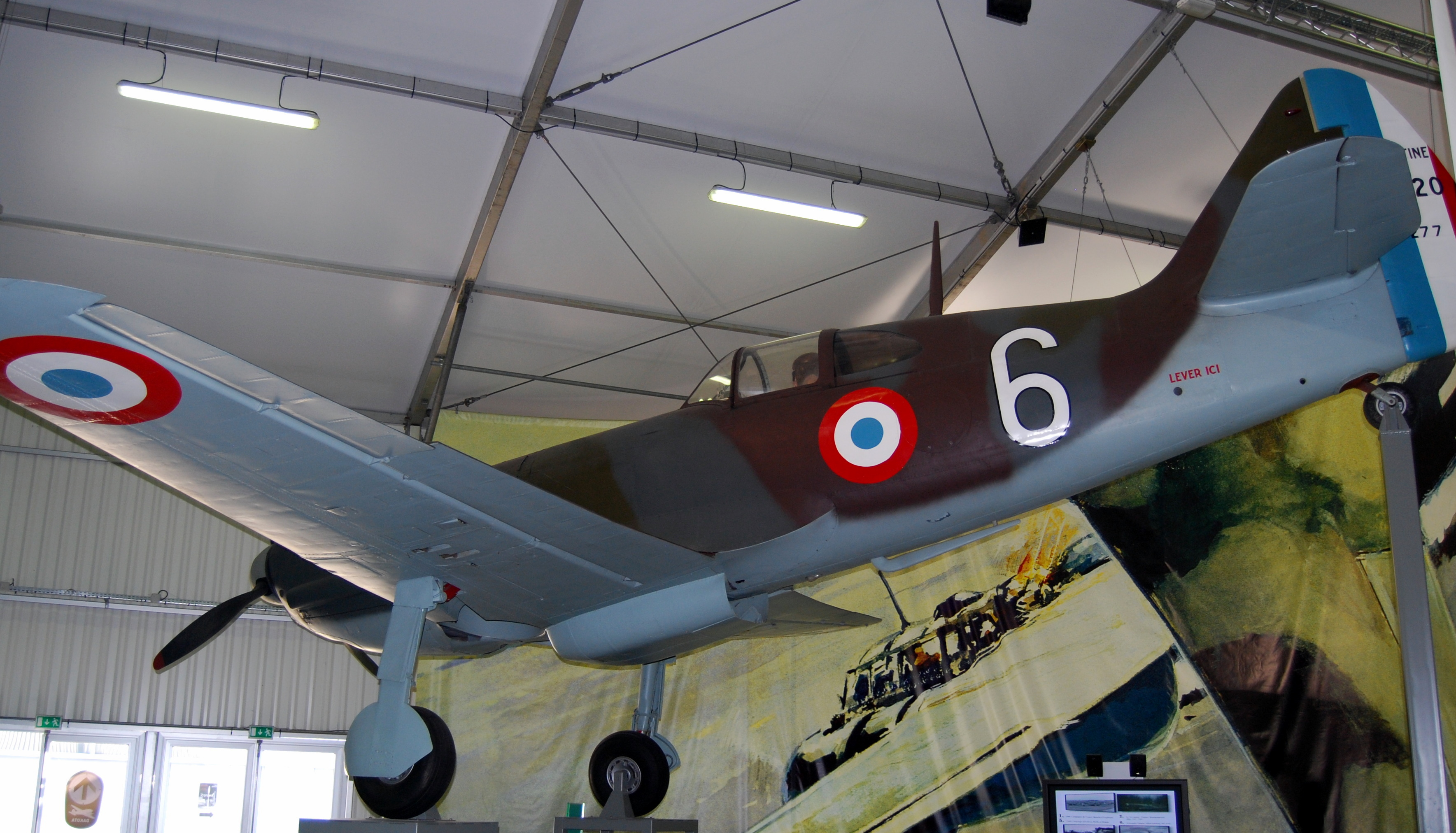 Photo ref; DSC1173-2012